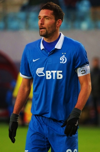 Kevin Kurányi